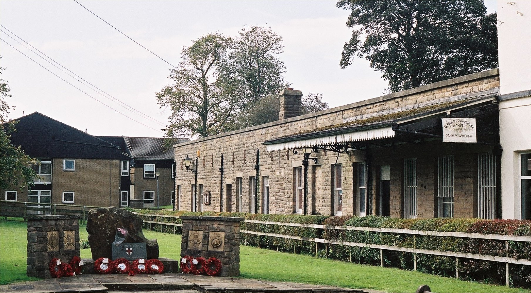 The remains of Longridge railway station, Lancashire, England, which closed to passengers in 1930 and to all traffic in 1967. At the end of 2009, two years after this photograph was taken, work began renovating the building.